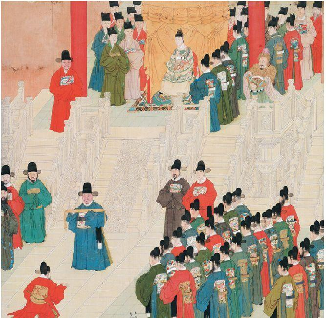 This painting is one of a series (now housed in the Palace Museum of Beijing) which portrays the career of the Ming-dynasty era Chinese official Xu Xianqing (徐顯卿). Xu was a native of Yixing (宜興 ; west of Lake Tai 太湖). He received his jinshi (進士) degree in 1568 and eventually became Vice-Minister of Personnel. His year of birth is unknown, although it is known that he died in 1602.